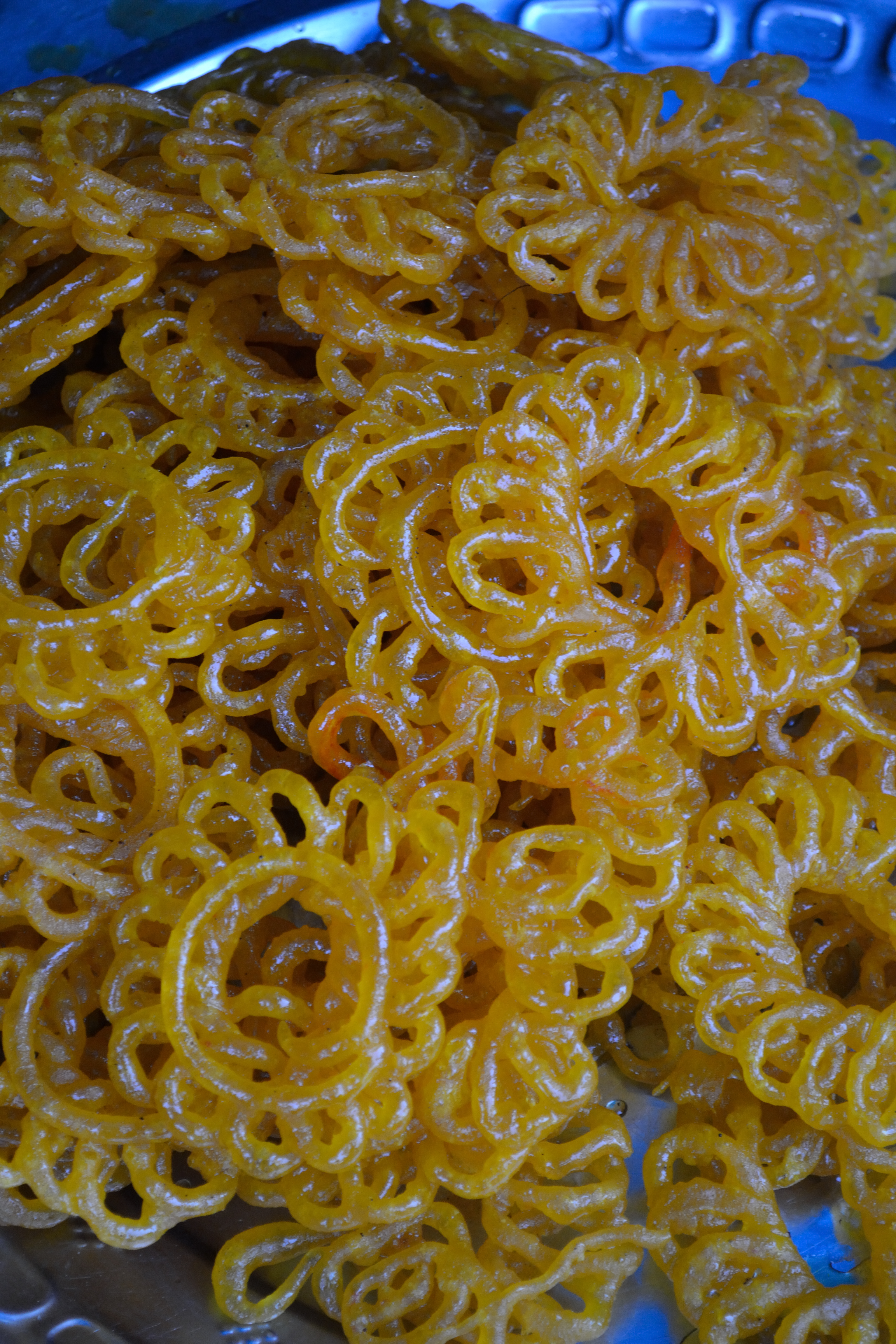 Photographed at Mall road, Dum Dum, Kolkata.